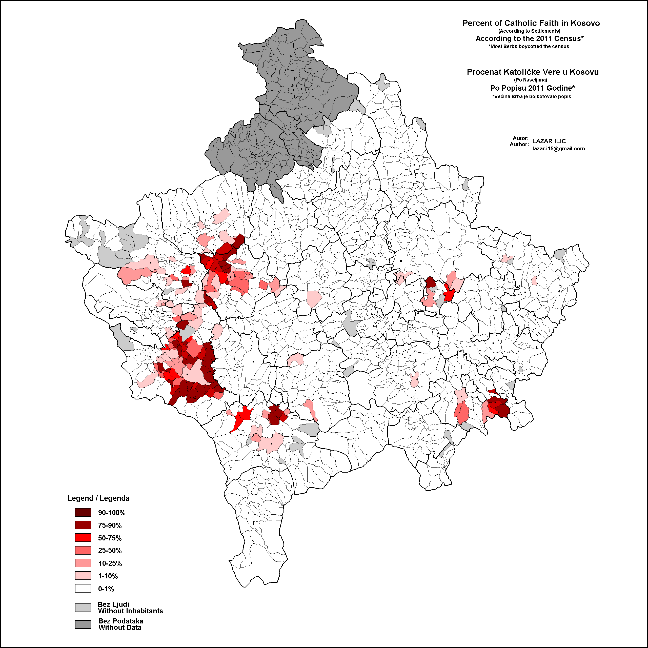 This map shows the percent of catholics in kosovo, according to the 2011 population census.